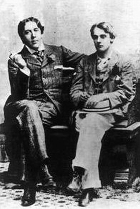 Photograph taken in 1893